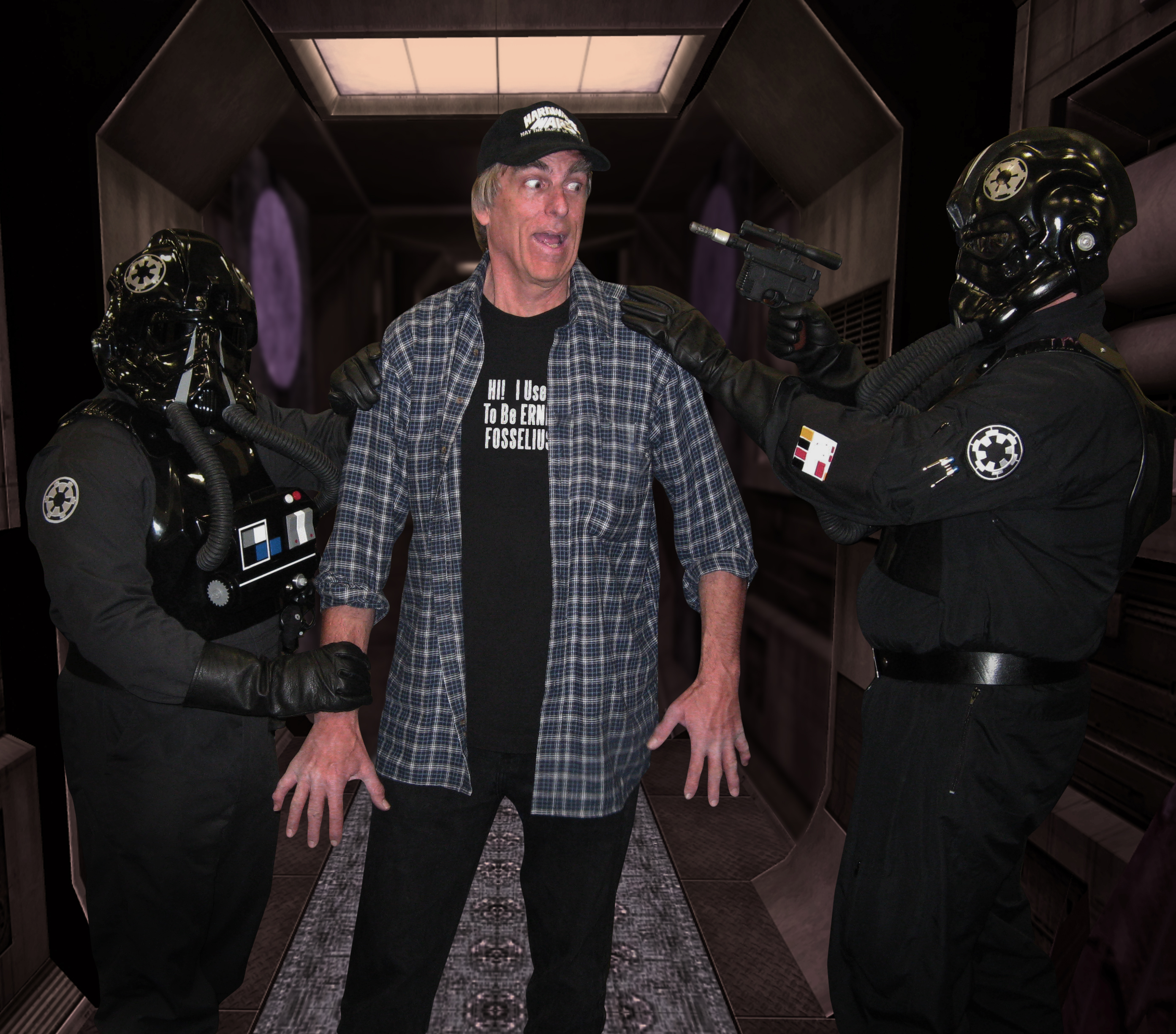 Ernie Fosselius with two Imperial TIE Fighter pilots. Photo taken at wondercon 2010.